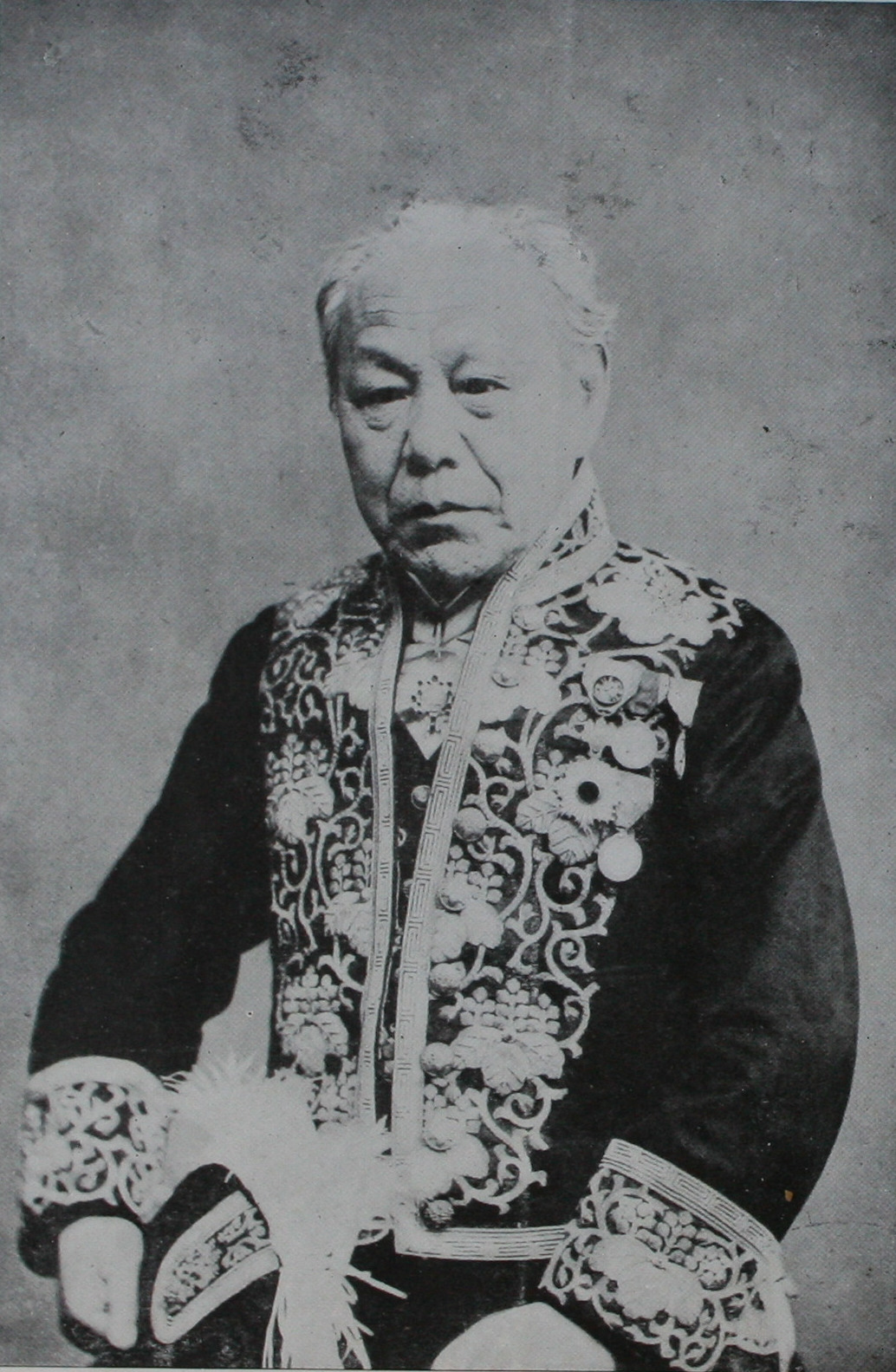 Portrait of IWAYA_ICHIROKU(1834-1905) statesman calligrapher